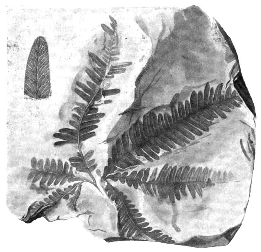 Laccopteris elegans (PRESL). From a specimen (No. 500) in the British Museum, Lower Keuper, Bayreuth. Frond nat. size; pinnule x 3. (Drawn by Miss G. M. WOODWARD.). Page 195. From Article. 6. On the Structure and Affinities of Matonia pectinata, R. BR., with Notes on the Geological History of the Matonineae. by By A. C. SEWARD, F.R.S.